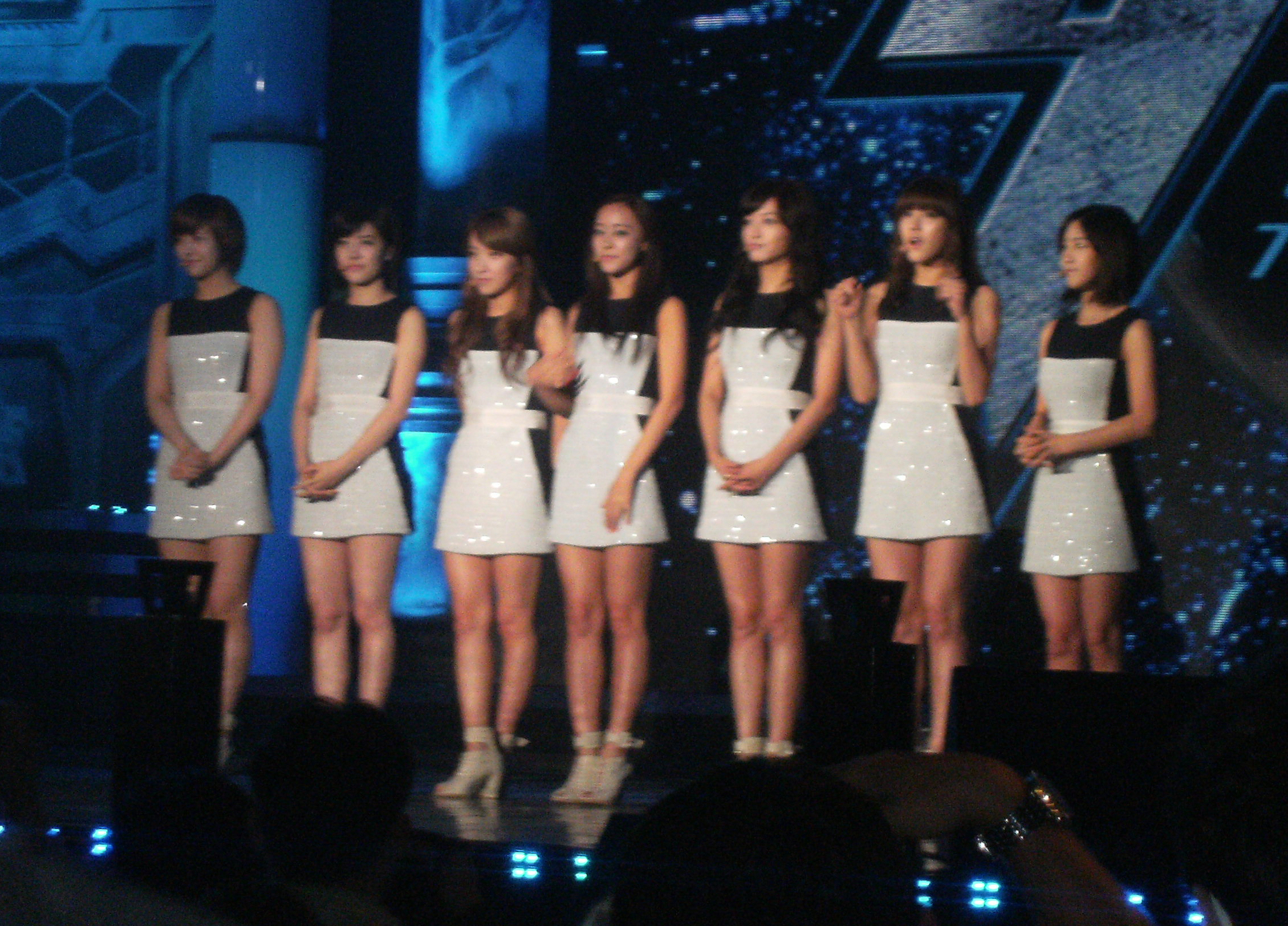 Group rainbow in gsl super tournament final